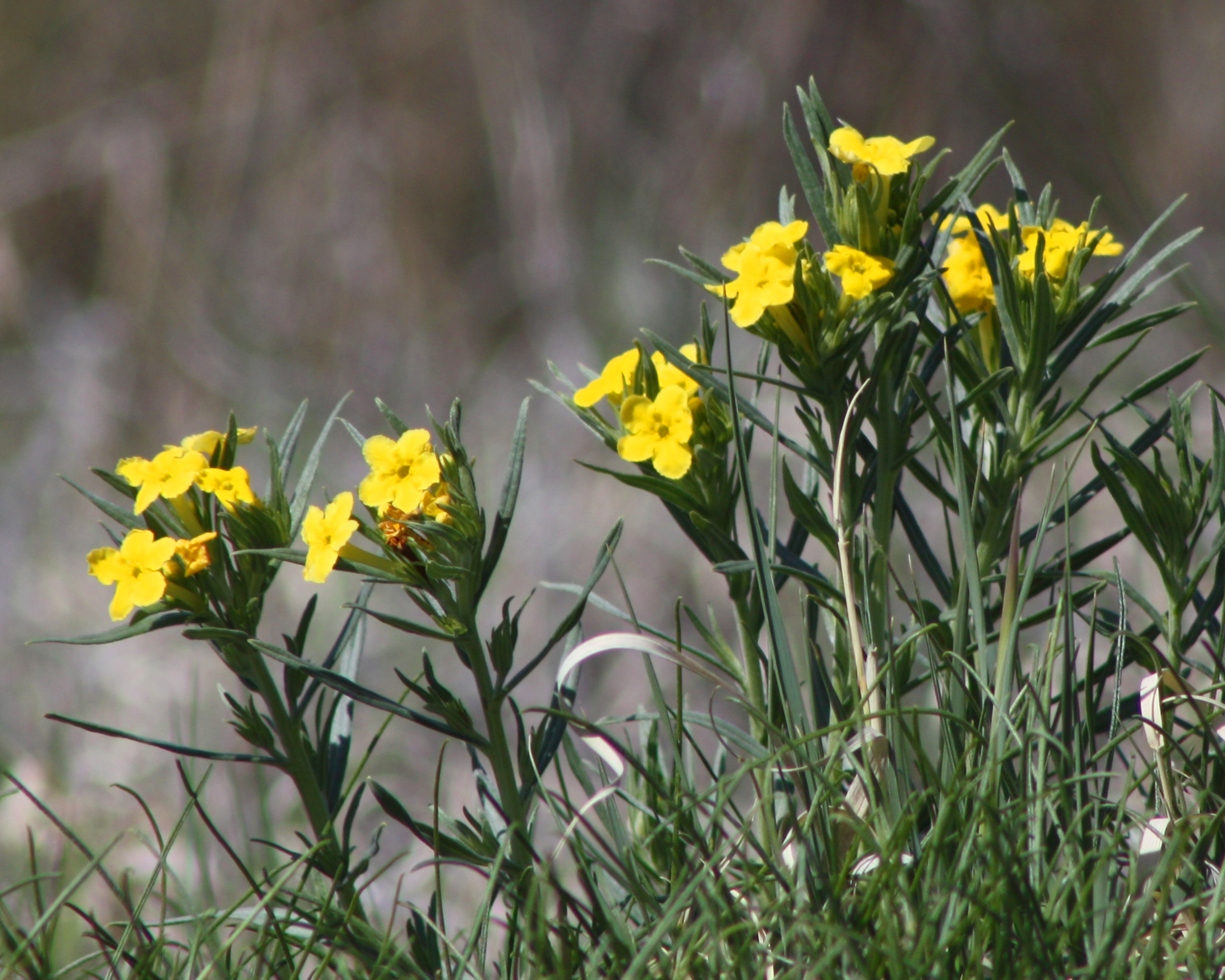 Lithospermum incisum